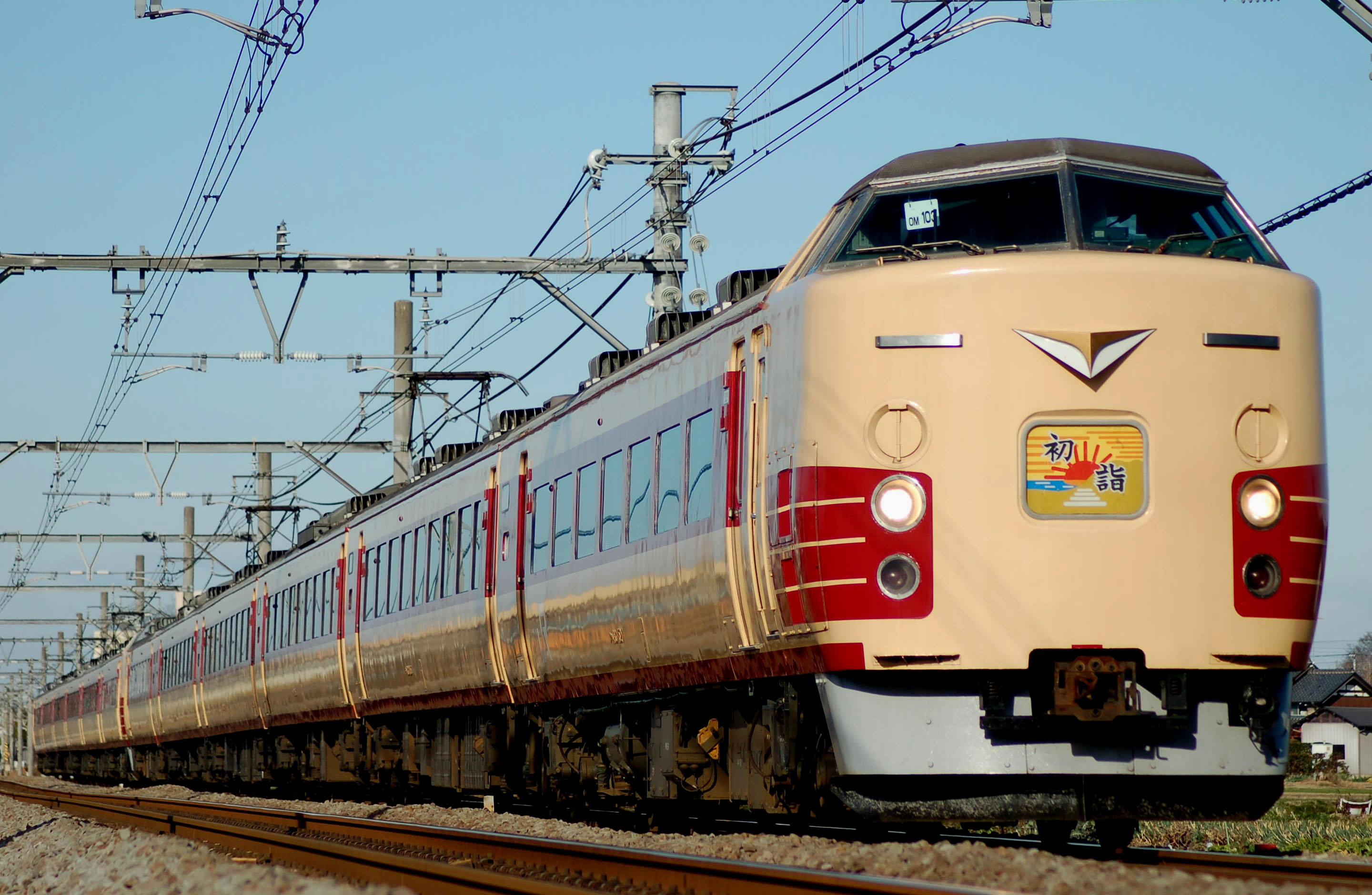 JR East(previously JNR) 183 series electric multiple units as party train for new year worshipping. JR東日本183系電車(国鉄色)、初詣臨時列車。12両編成で運転時のもの。